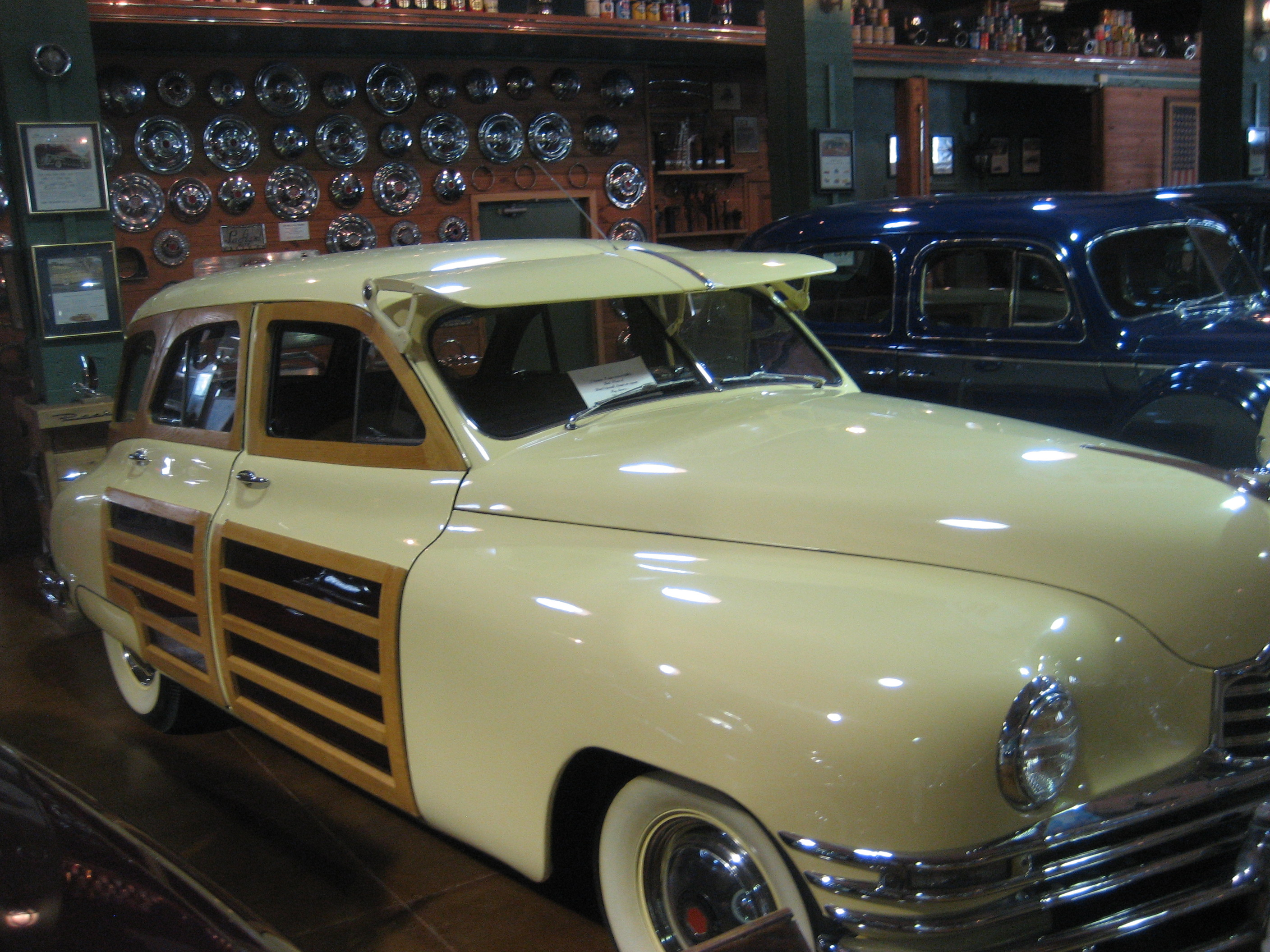 1948 Packard "Woodie"; Model 2201 6 passenger station sedan On display at Fort Lauderdale Antique Car Museum.